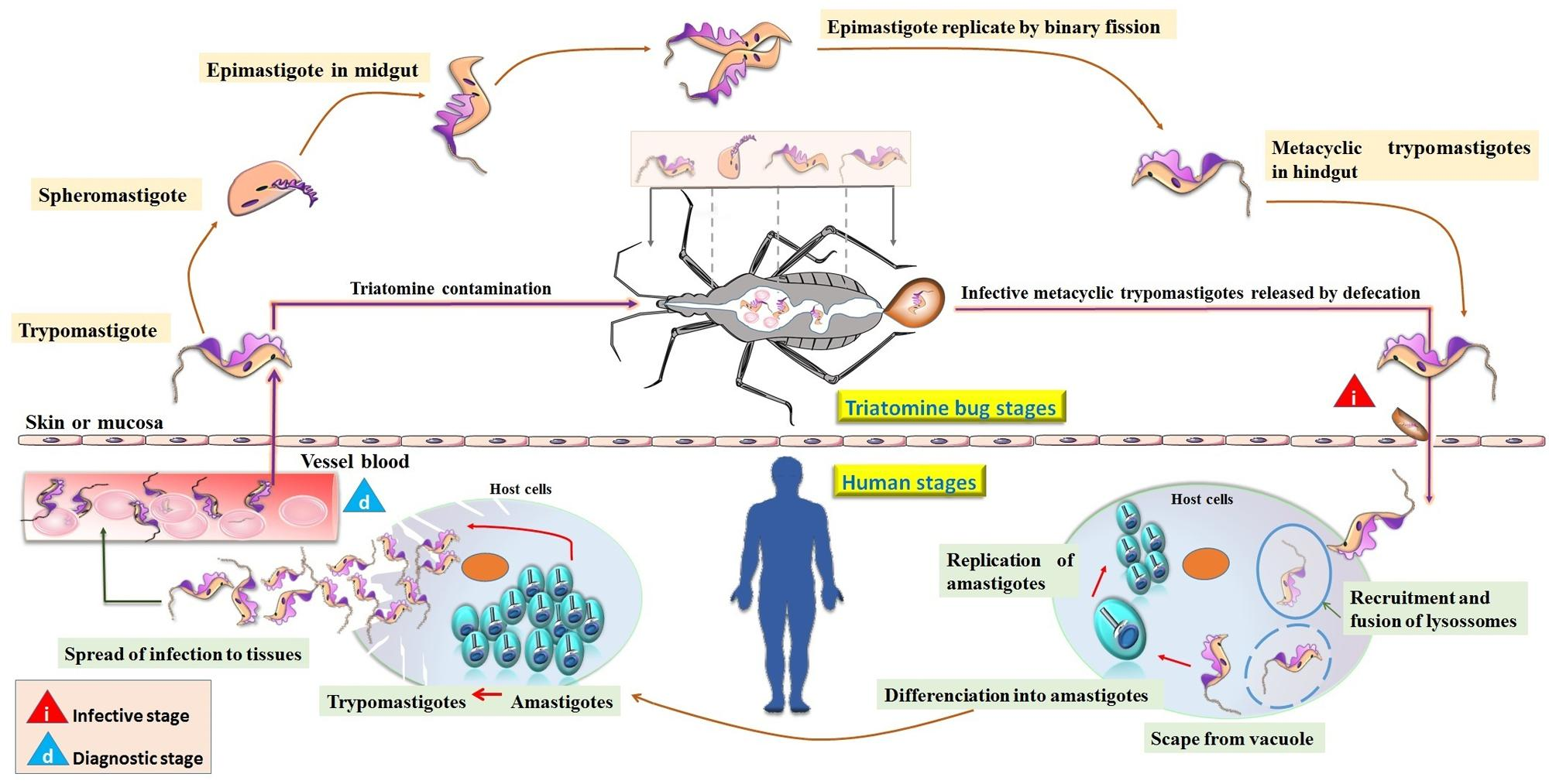 The Complement System: A Prey of Trypanosoma cruzi FIGURE 1. Life cycle of Trypanosoma cruzi. Transmission is initiated by insect vectors that defecate after a blood meal and release metacyclic trypomastigotes near the bite wound. This infective stage is characterized by the invasion of host cells by trypomastigotes forming the parasitophorous vacuole, from which they subsequently escape, differentiate into amastigotes, and replicate in the cytosol. The amastigotes then divide, differentiate into trypomastigotes, and upon rupture of the cell spread the infection to tissues. Trypomastigotes reach the bloodstream, where they are eventually taken up by the insect vector or infect new cells. In the triatomine bugs, trypomastigotes differentiate into spheromastigotes becoming initially short epimastigotes (mid-log). After migration to the bug’s hindgut, elongate epimastigotes (late-log) attach to the waxy gut cuticle and give rise to infectious metacyclic trypomastigotes, completing the parasite life cycle.